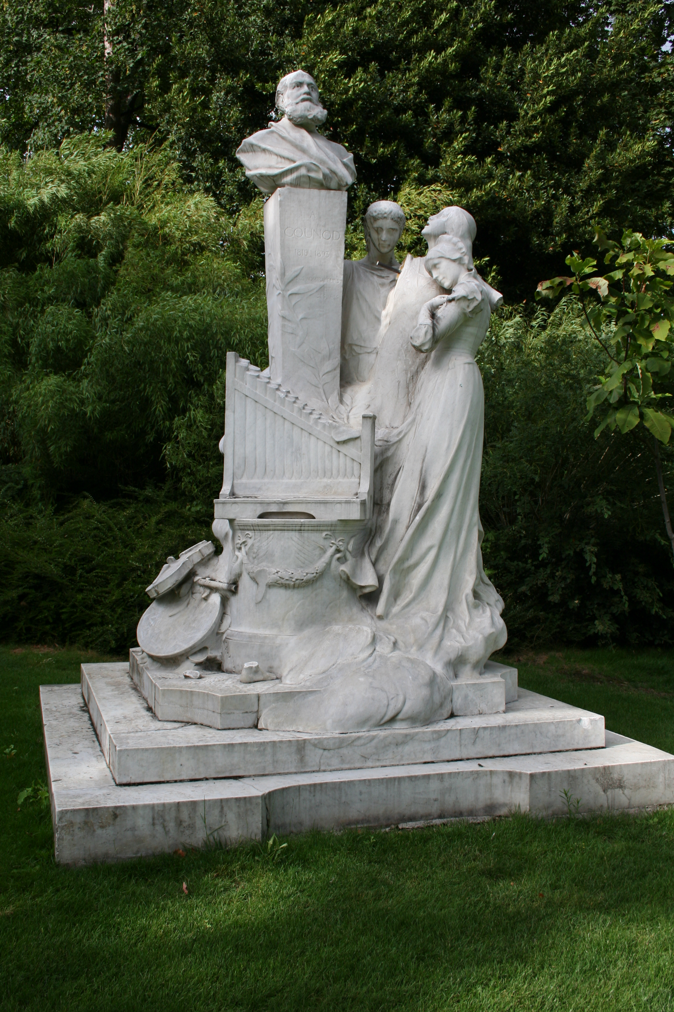 Charles Gounod, sculpted by Antonin Mercié. Parc Monceau, Paris, France.